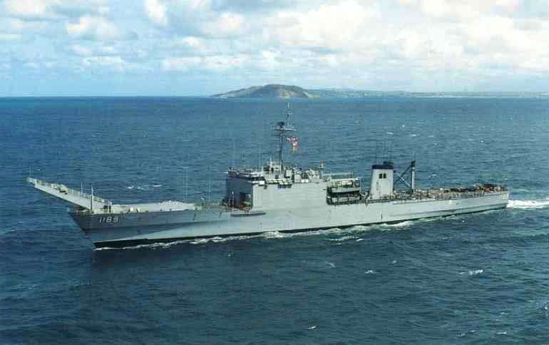 The U.S. Navy tank landing ship USS San Bernardino (LST-1189) underway off San Diego, California (USA), before her 7.6 cm artillery was replaced by Phalanx CIWS.